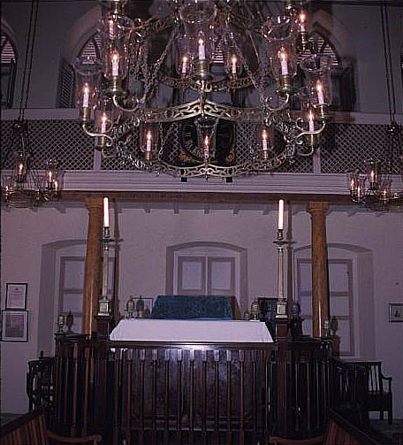 NIDHE JEWISH SYNAGOGUE; JEWS FIRST ARRIVED IN BARBADOS IN 1628 BUT WERE NOT ALLOWED TO WORSHIP UNTIL 1654 WHICH WAS SEVERAL YEARS BEFORE THEY WERE ALLOWED IN ENGLAND. ONE OF THE OLDEST SYNAGOGUES IN THE WESTERN HEMISPHERE. THE JEWISH POPULATION IS VERY SMALL HAVING BEEN DECIMATED THROUGH THE YEARS BY THE FEVERS WHICH AFFLICTED BARBADOS.